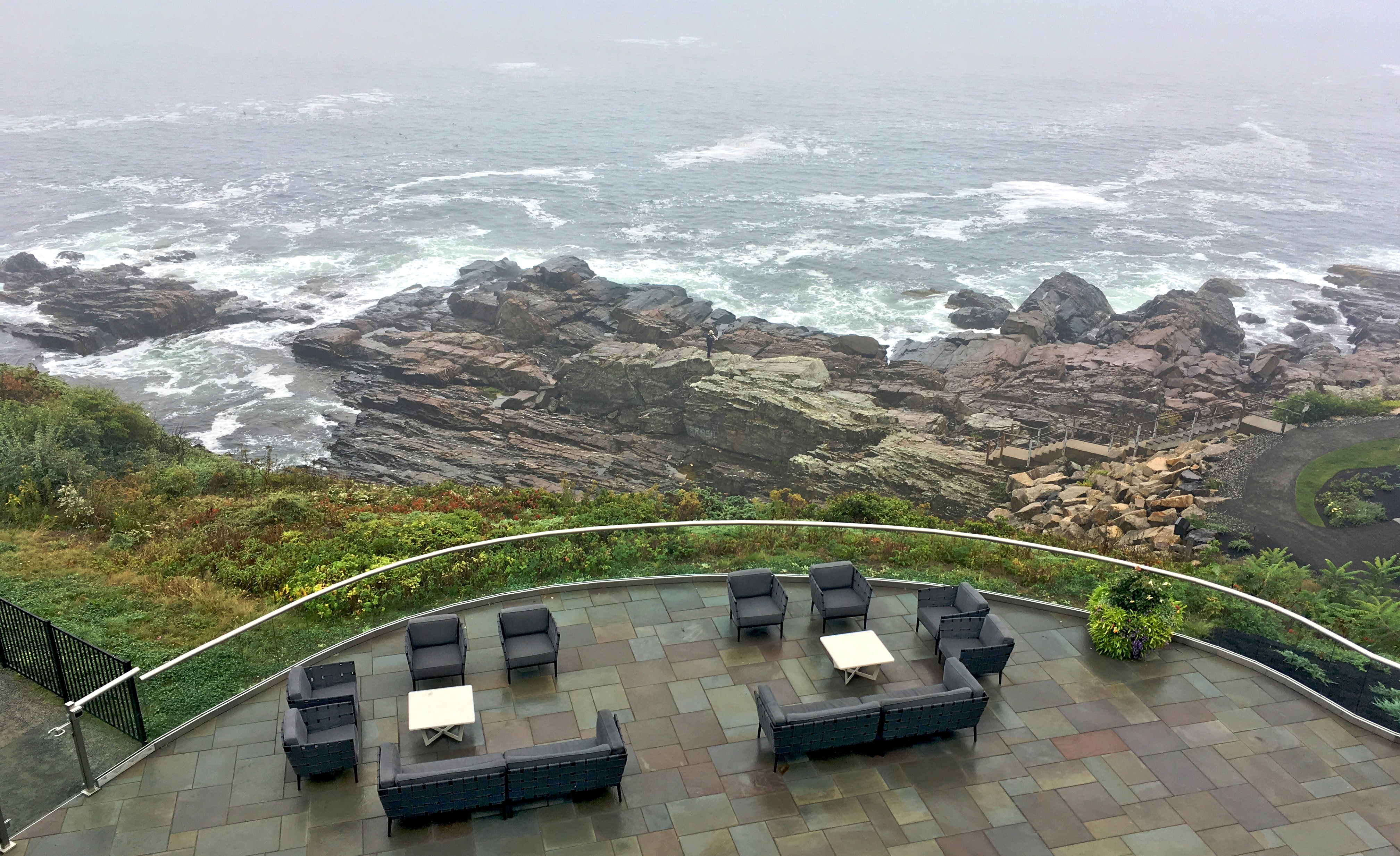 View of the main rock formation at Cliff House